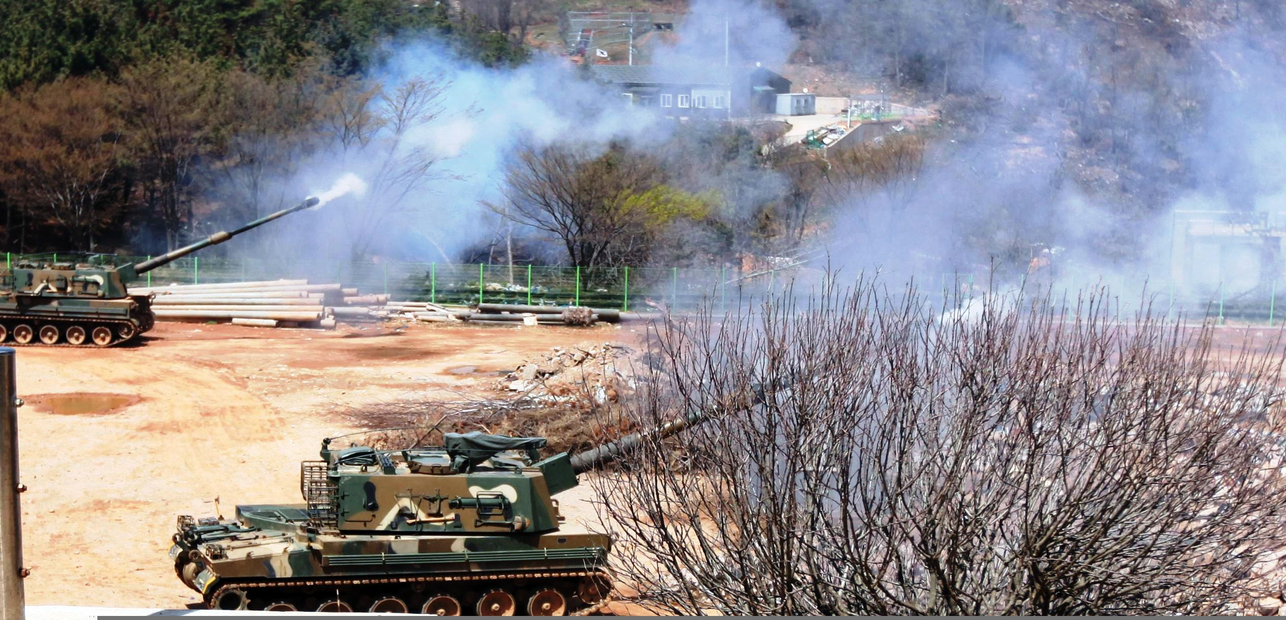 Republic of Korea marines fire K-9 Thunder 155 mm self-propelled artillery systems during a fire-support coordination drill at Yeonpyeong-Do, Republic of Korea, May 3, 2011. The staff of the U.S. Marine Corps 3rd Battalion, 12th Marine Regiment, 3rd Marine Division, III Marine Expeditionary Force visited Republic of Korea marines to observe the training.